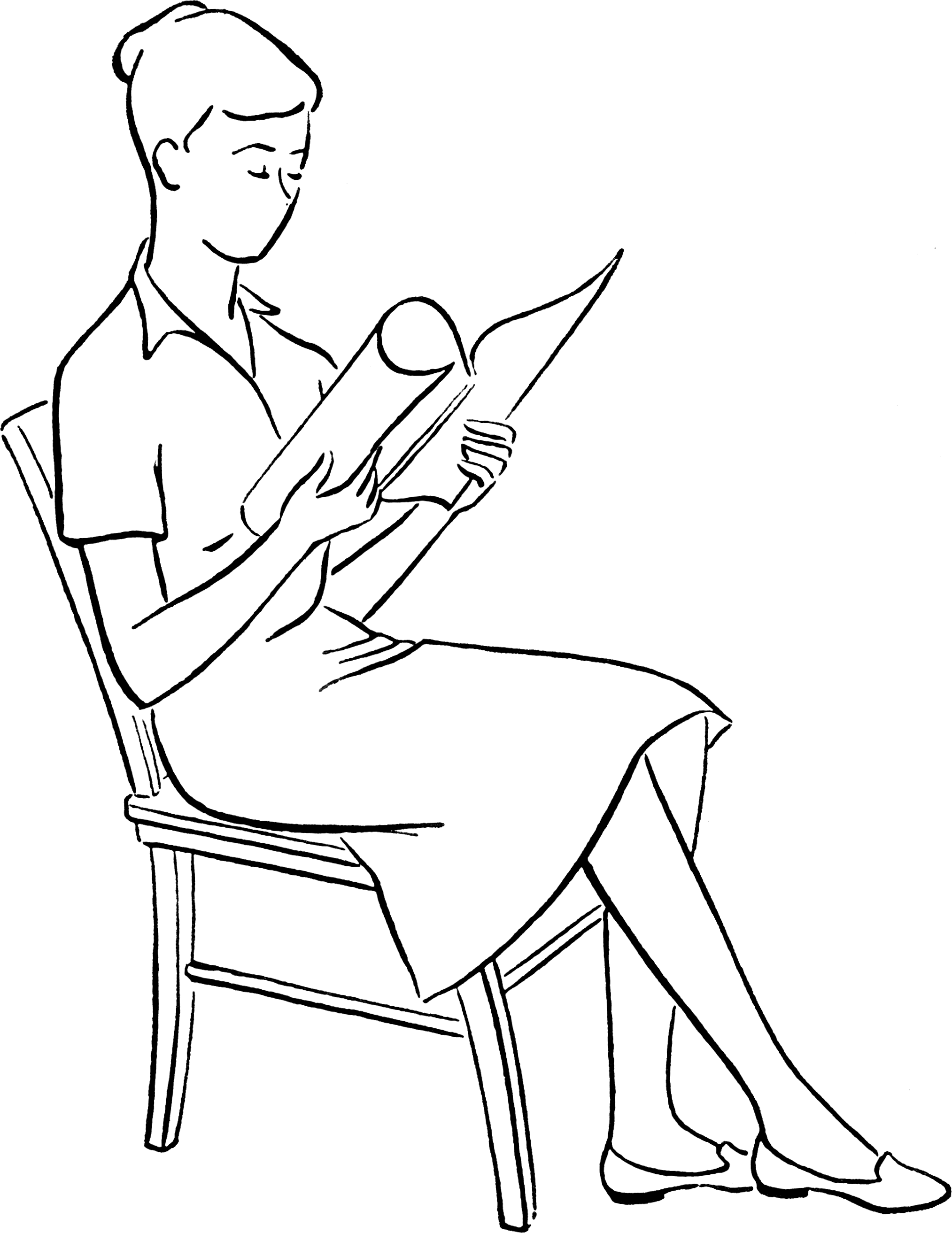 3. Sit well back in chair with body in balance.